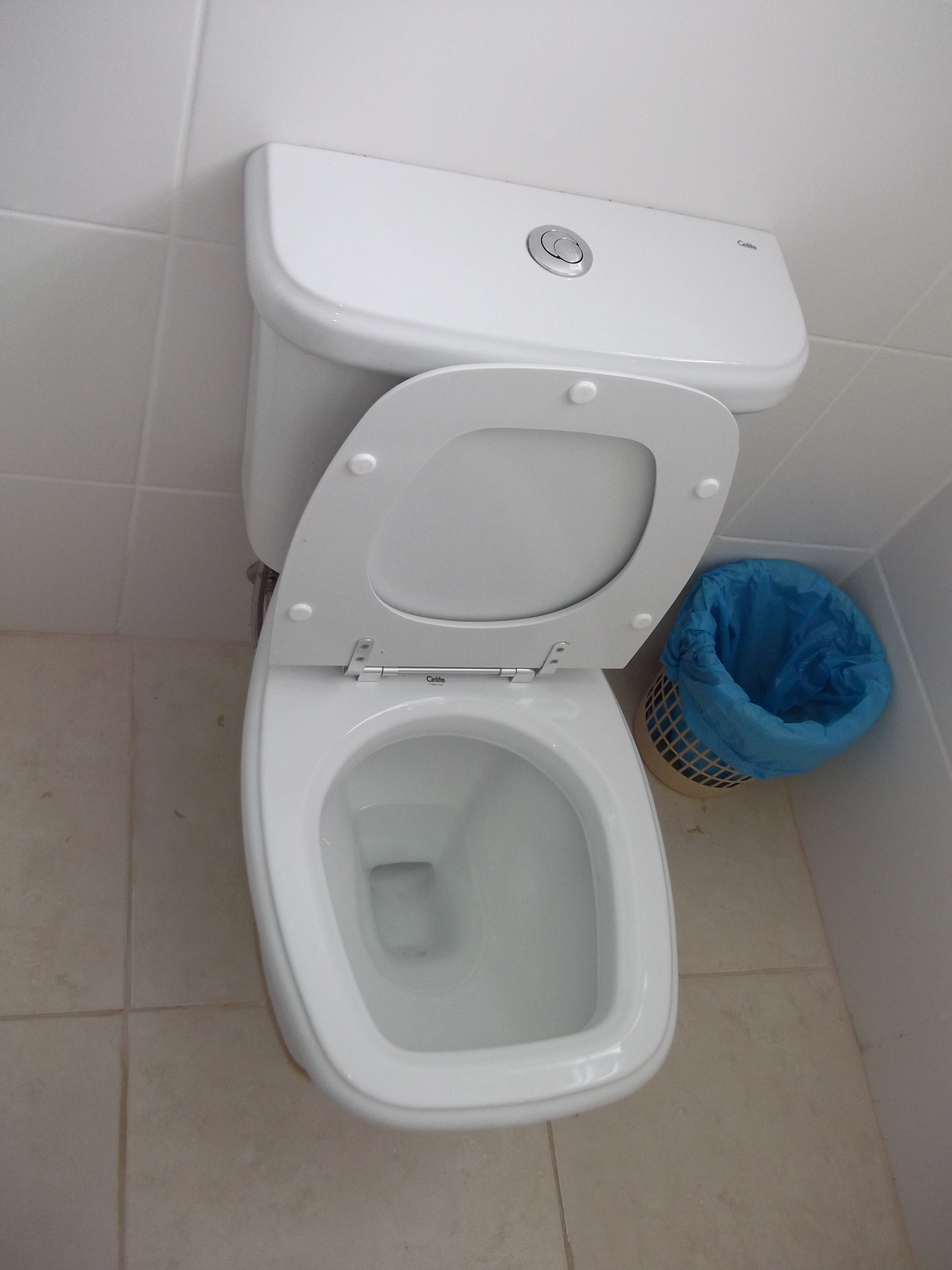 Toilet double flush